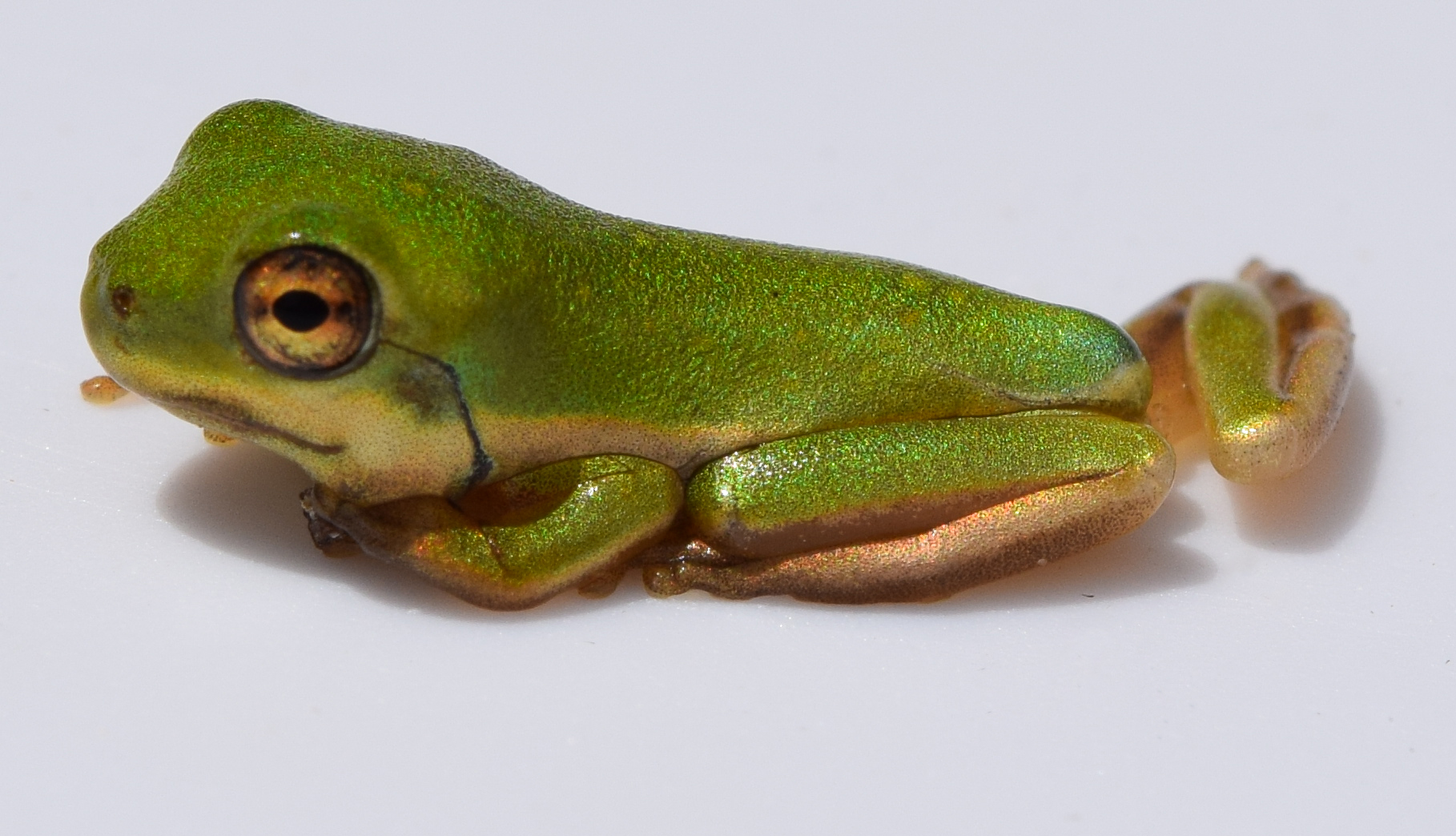 A Hyla cinerea (American green treefrog) metamorph at the University of Mississippi Field Station.